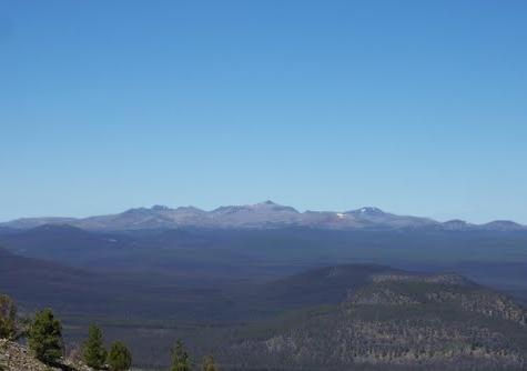 The Itcha Range in British Columbia, Canada.